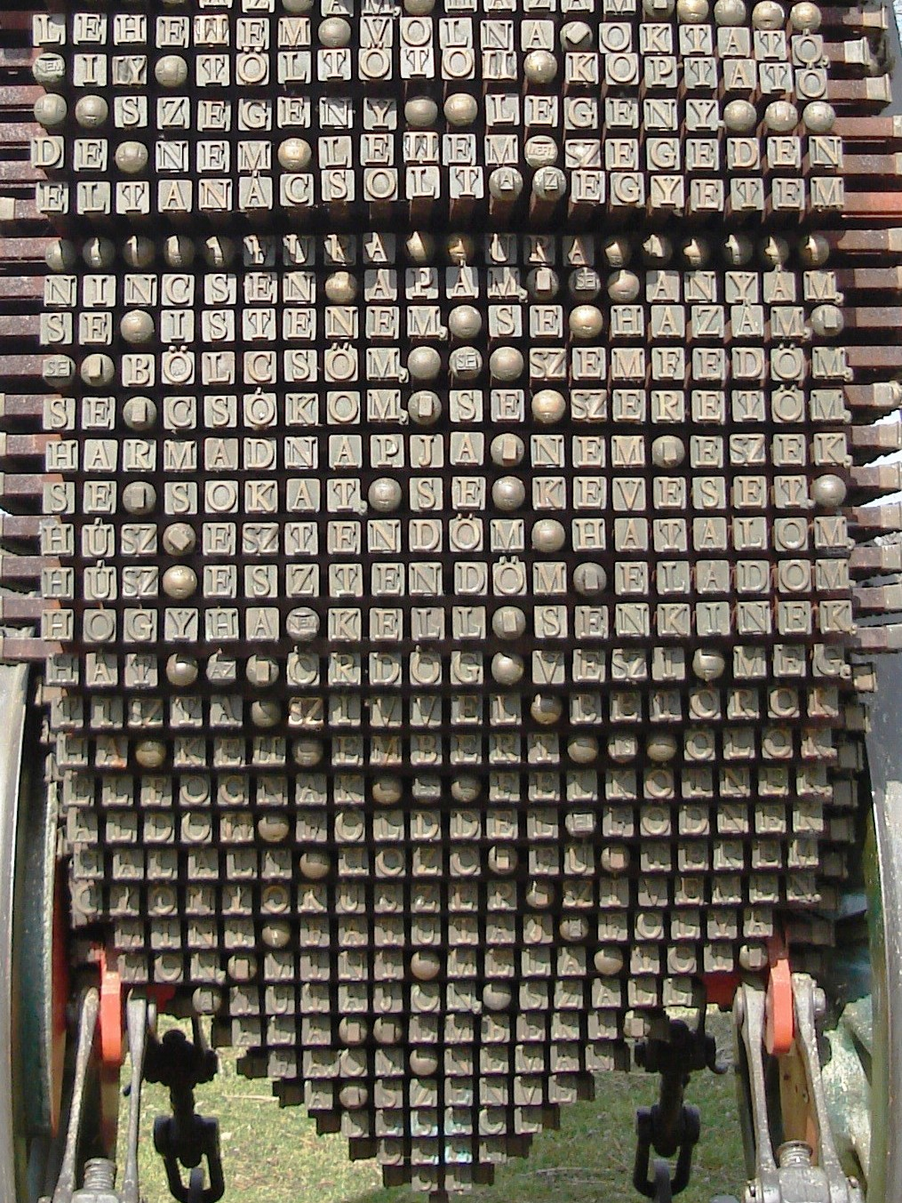 Part of the memorial to Mr Attila József (1905-1937) Hungarian poet in Balatonszárszó.